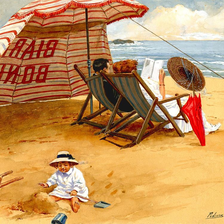 Blanco y Negro, Biarritz Bonheur, watercolor, varnish and pencil, 44,2 x 31,9 cm, 15.8.1915, by Mariano Pedrero